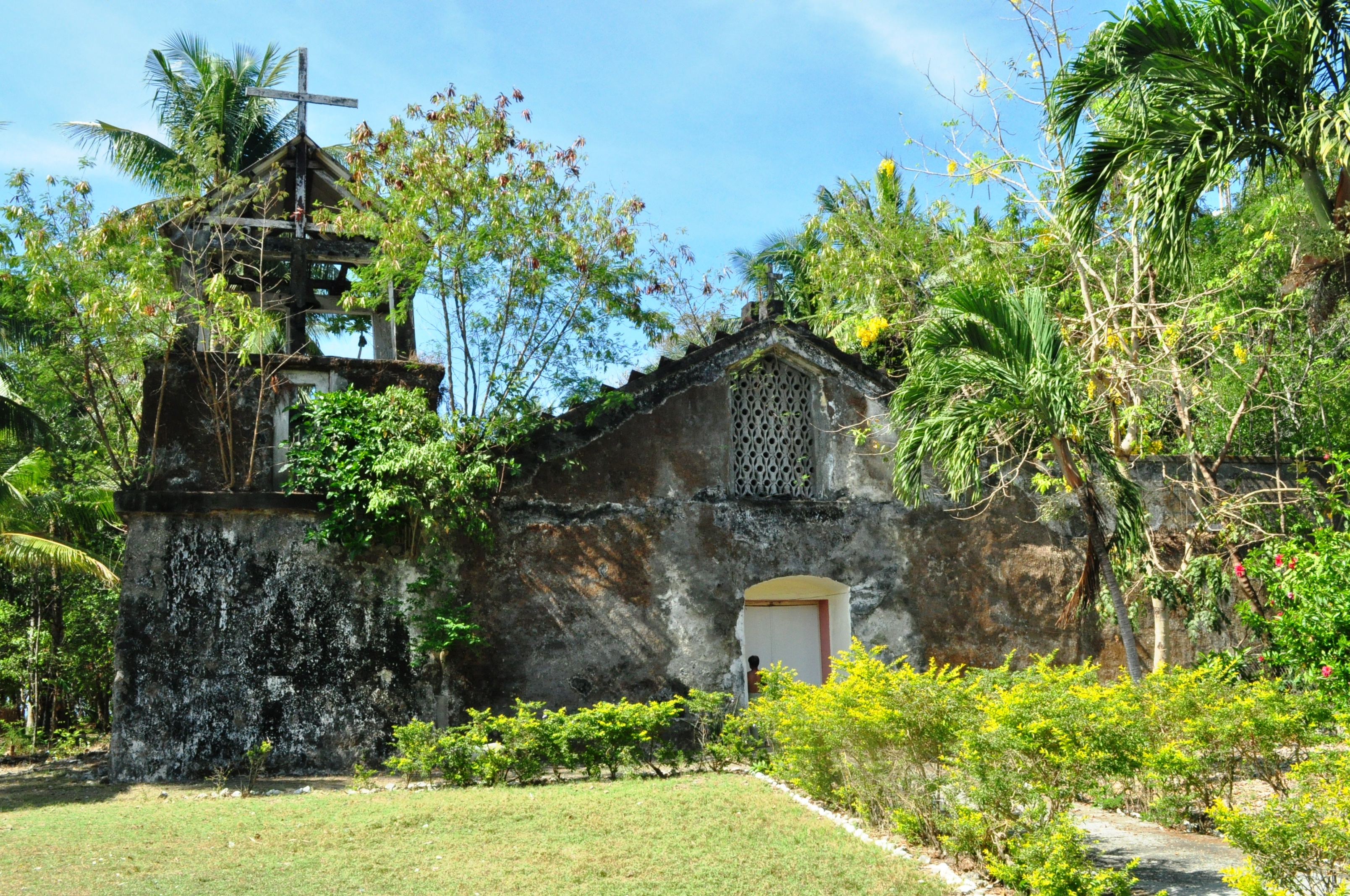 San Sebastian Parish Church, Sablayan, Occidental Mindoro